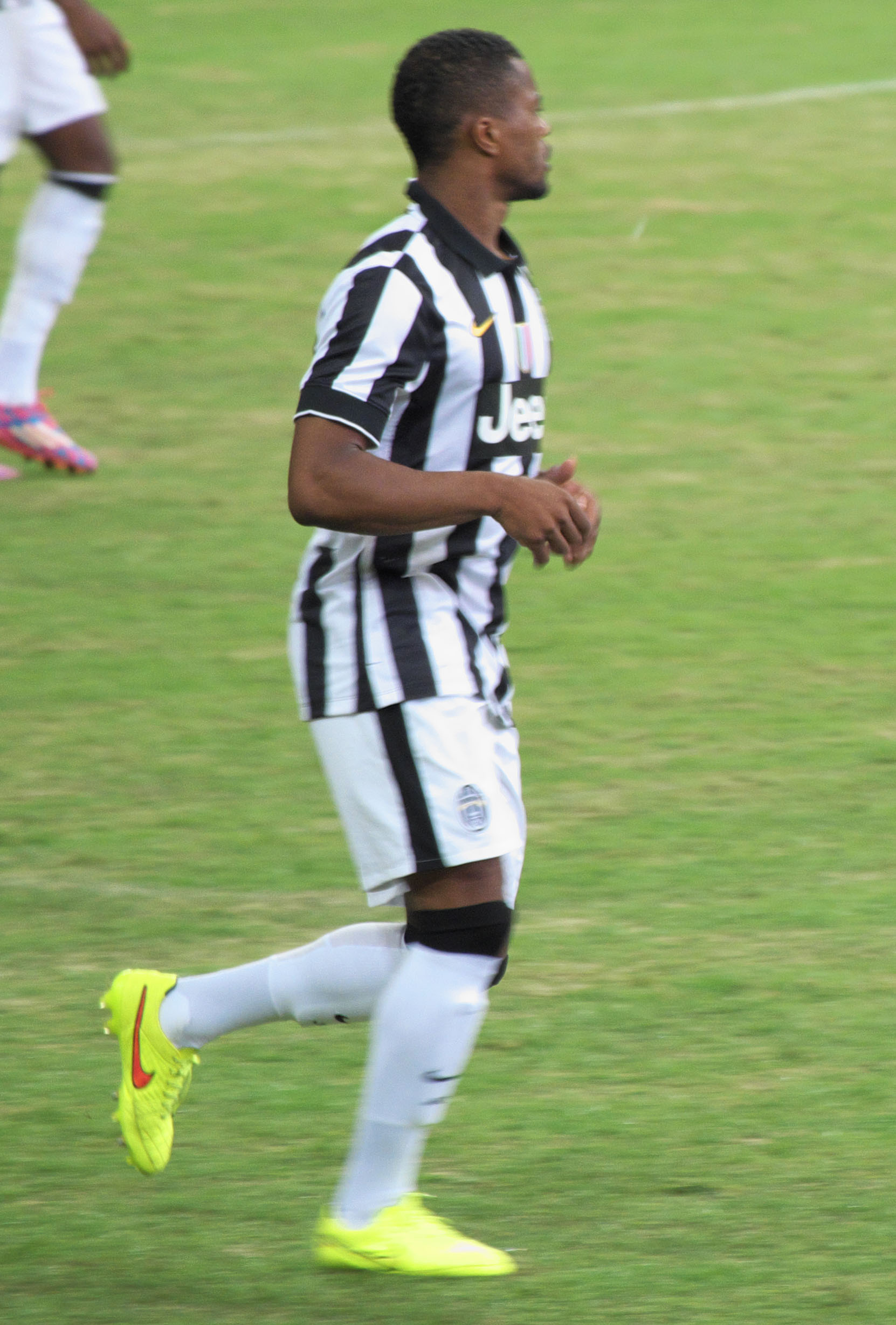 Patrice Evra, Singapore Selection vs Juventus @ National Stadium